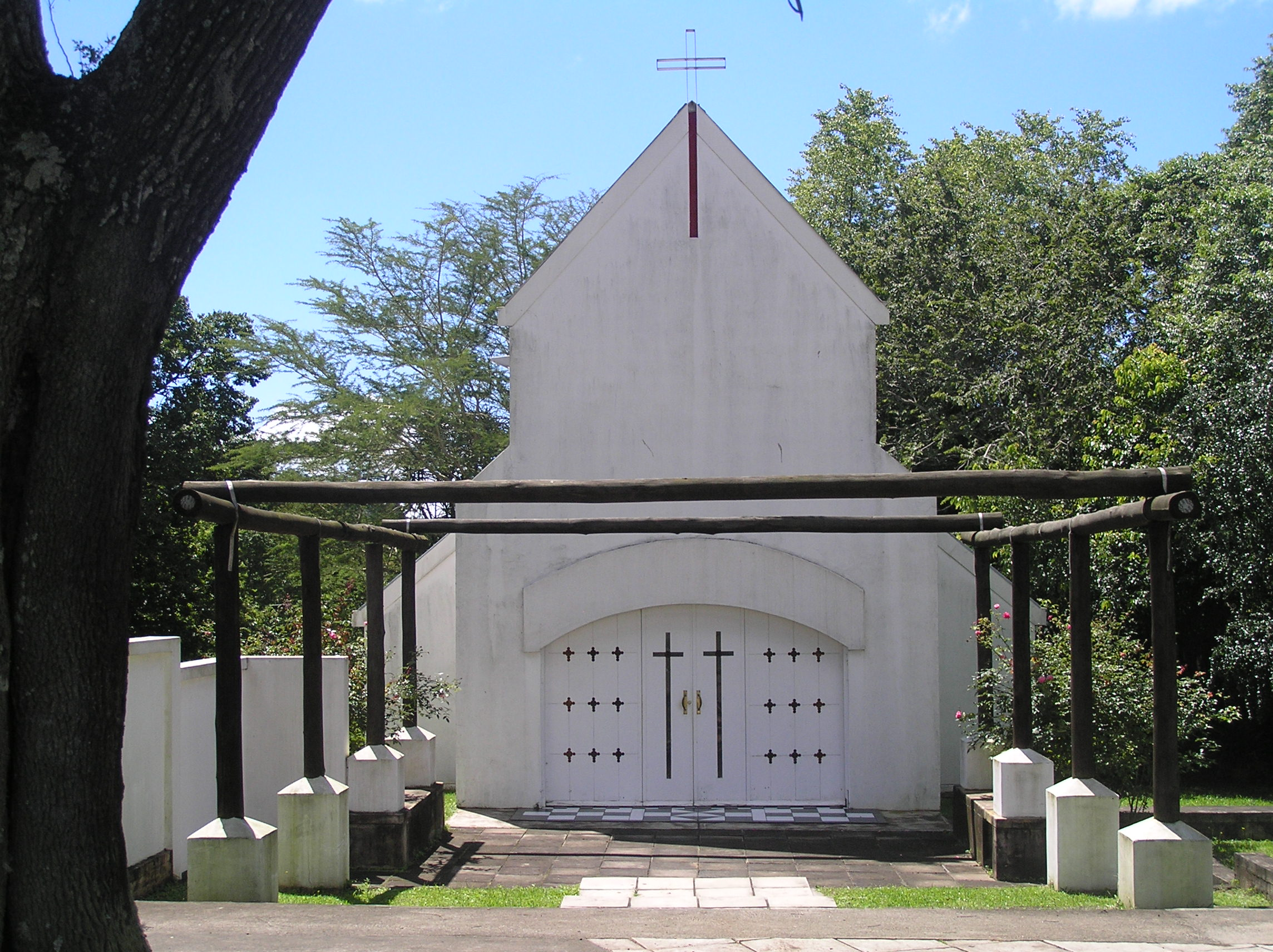 Fort Nongqayi Chapel at Eshowe, KwaZulu-Natal, South Africa